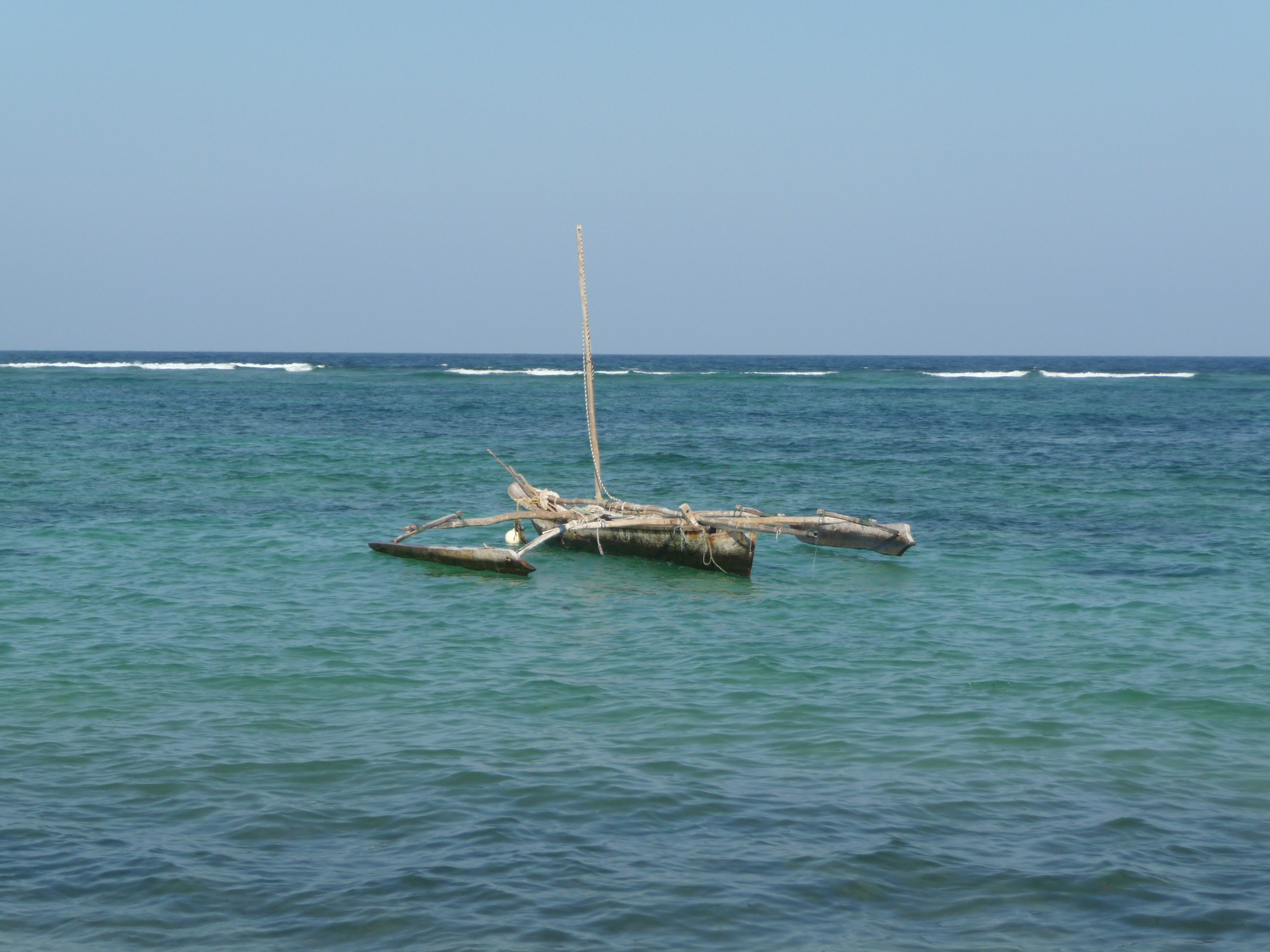 small dhow near Mombasa